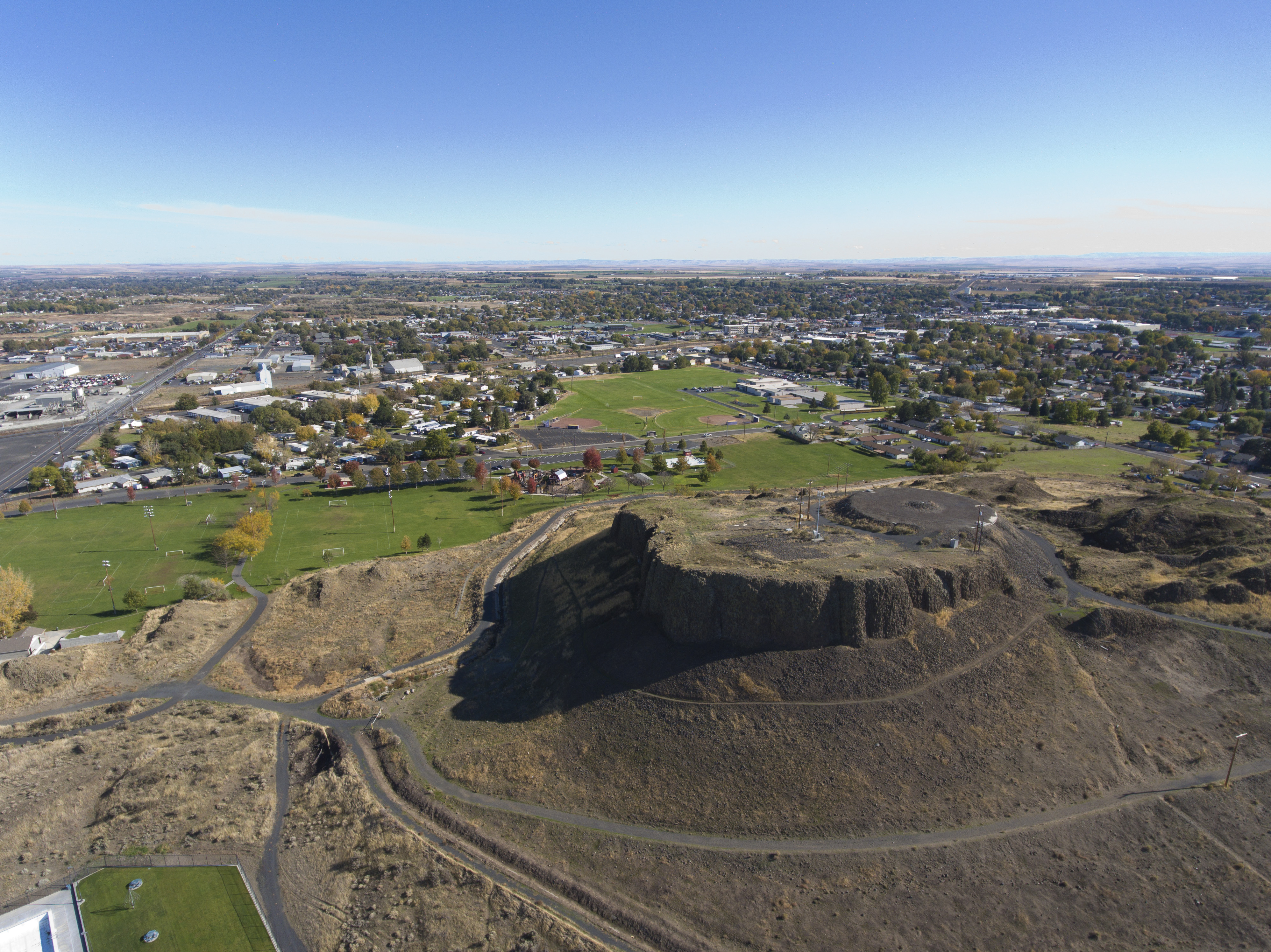 A view of the Hermiston Butte, facing East. Aerial photo taken from above Good Shepherd Medical Center.